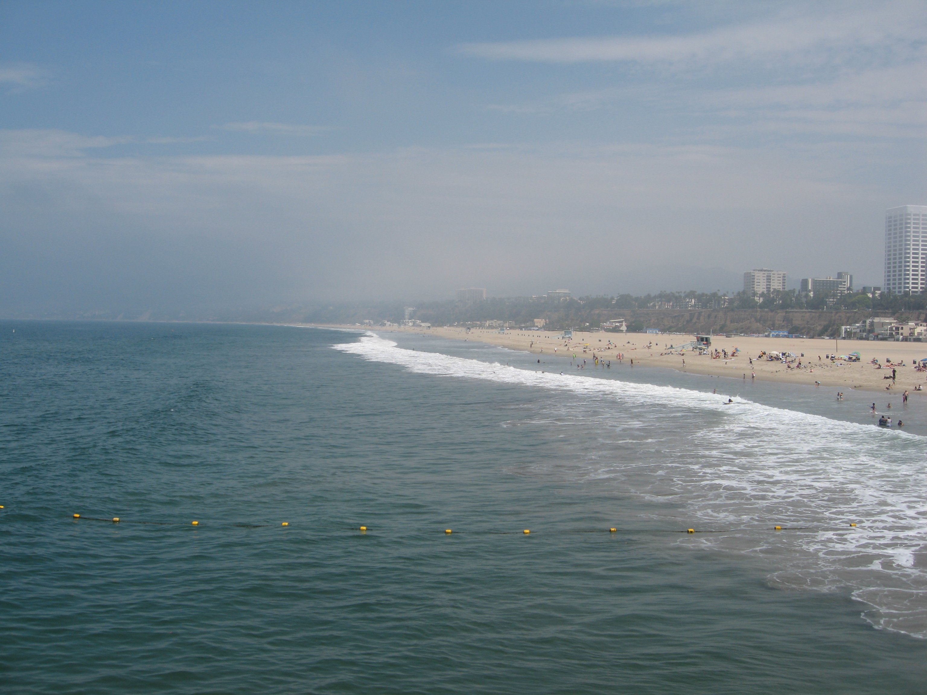 Santa Monica State Beach and bay - from Santa Monica Pier